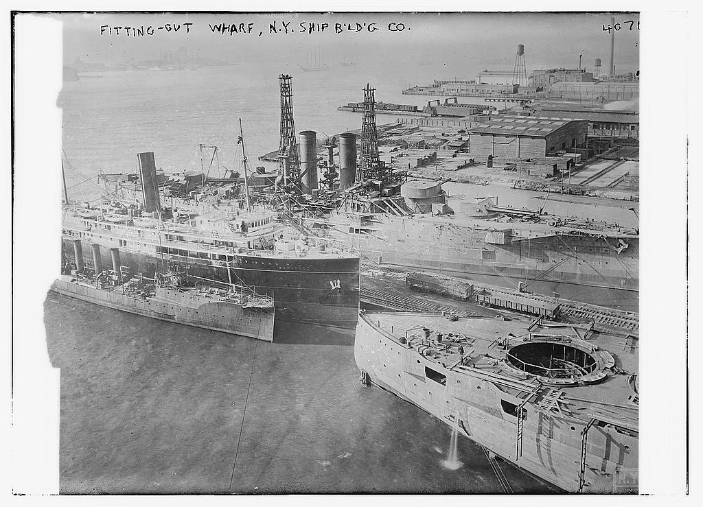 Nearly completed battleships USS Arkansas (BB-33) and USS Utah (BB-31) are seen after launching alongside the destroyer USS Ammen (DD-35) and the large civilian coastal liner Suwantee. New Youk Shipbuilding Corporation. C. a. 1912. Description source. Bain News Service,, publisher.